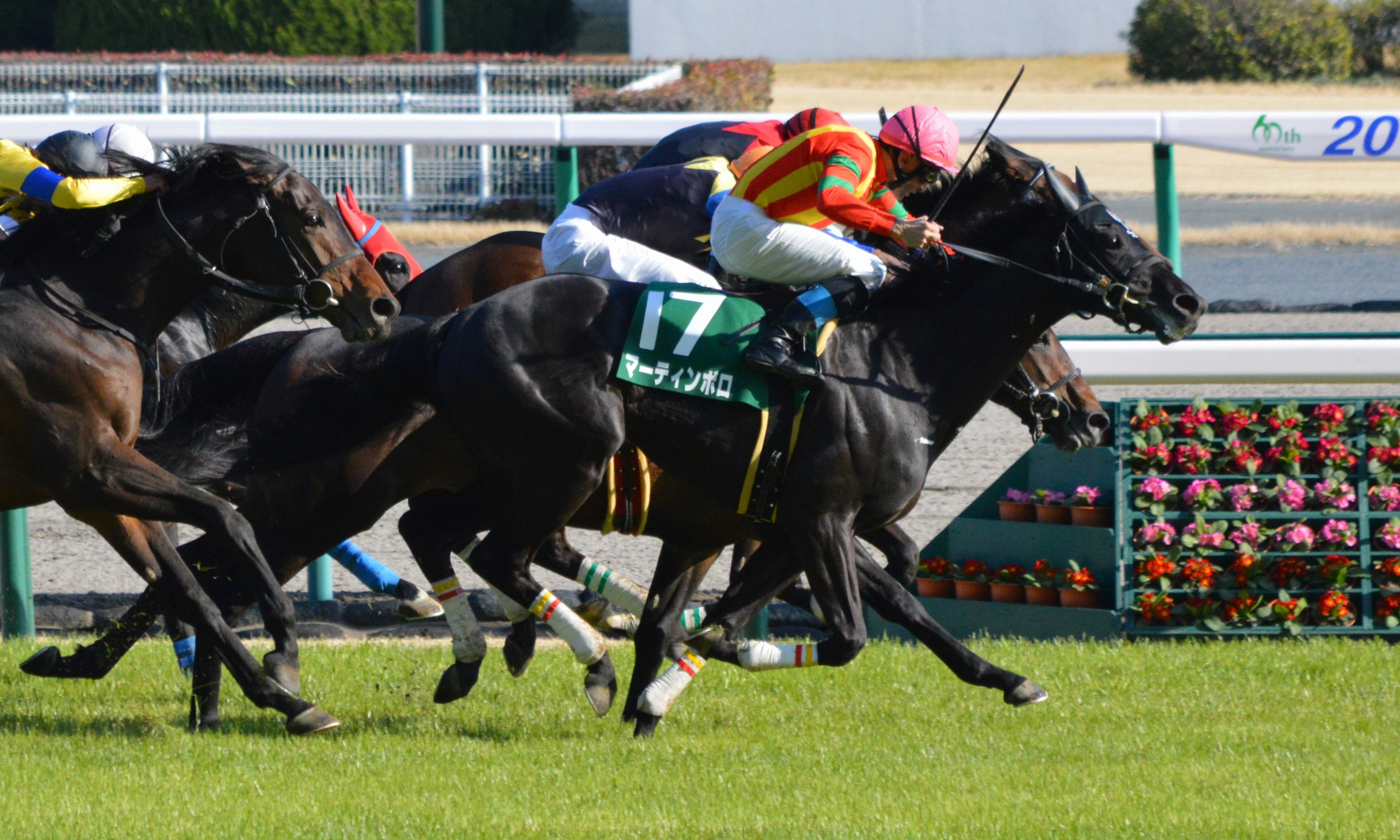 Japanese race horse Martinborough at Chukyo racecourse. Chukyo (JPN) 15 Mar 2014 Chunichi Shimbun Hai (Grade 3) (4yo+) (Turf) 1m2f Firm RankHorse NameOddsAgeWgtTrainerJockey1stMartinborough (JPN)30/1H58-7Yasuo TomomichiDario Vargiu2ndLachesis (JPN)31/10F48-7Katsuhiko SumiiYuga Kawada3rdLovely Day (JPN)108/10C48-11Yasutoshi IkeeEduardo Pedroza4th - 18th/omission